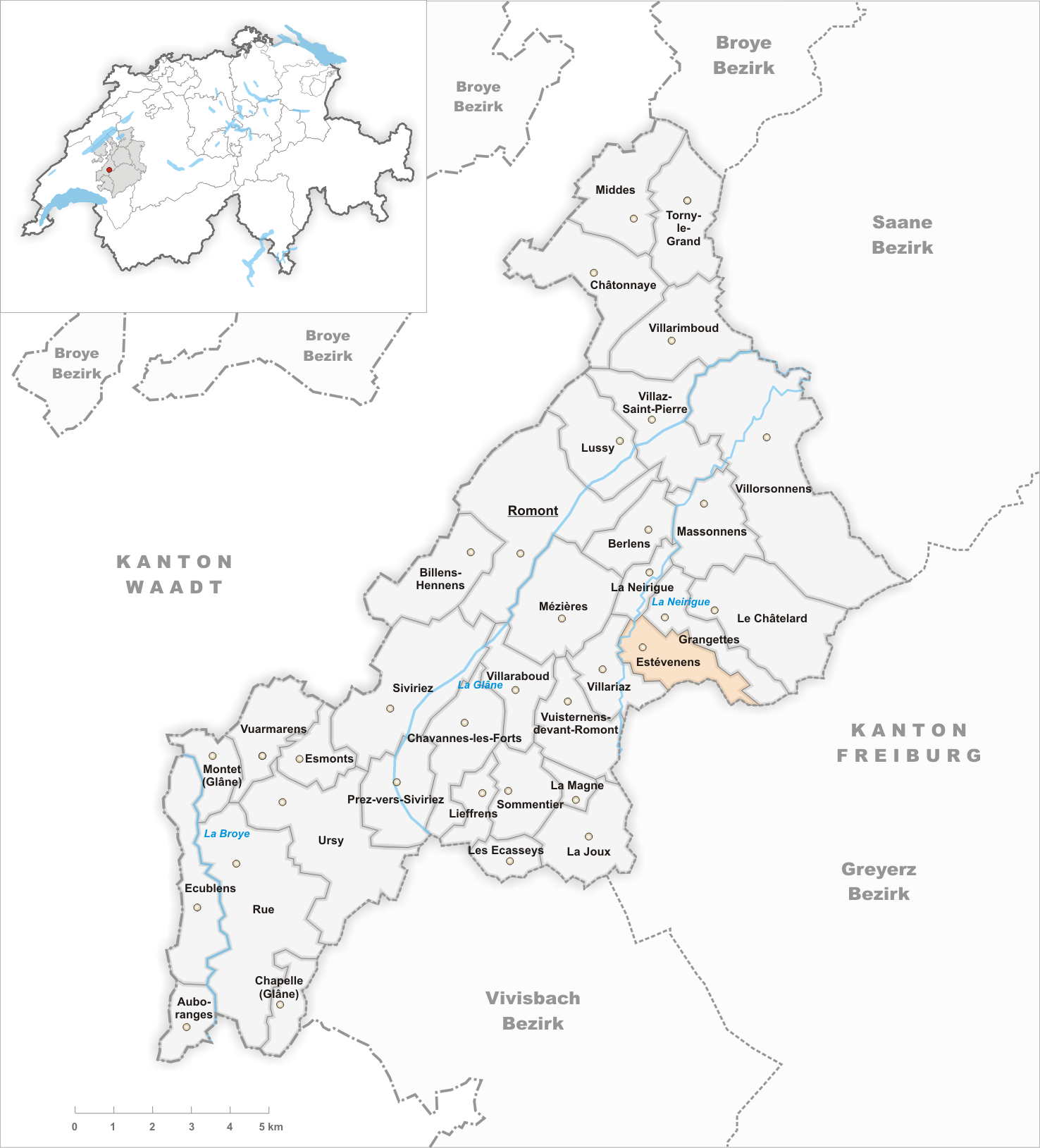 Municipality Estévenens Artist: Tschubby